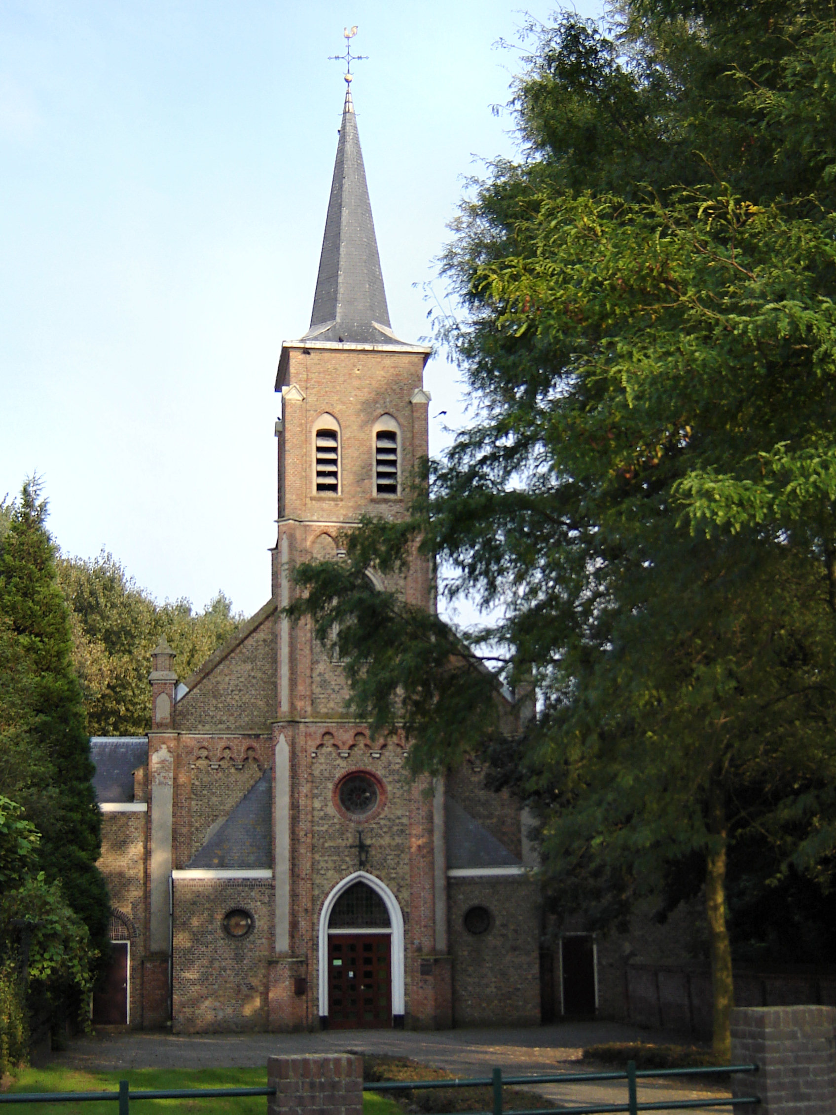 Roman catholic church of the Immaculate Conception in Biervliet. Biervliet, Terneuzen, Zeeland, Netherlands